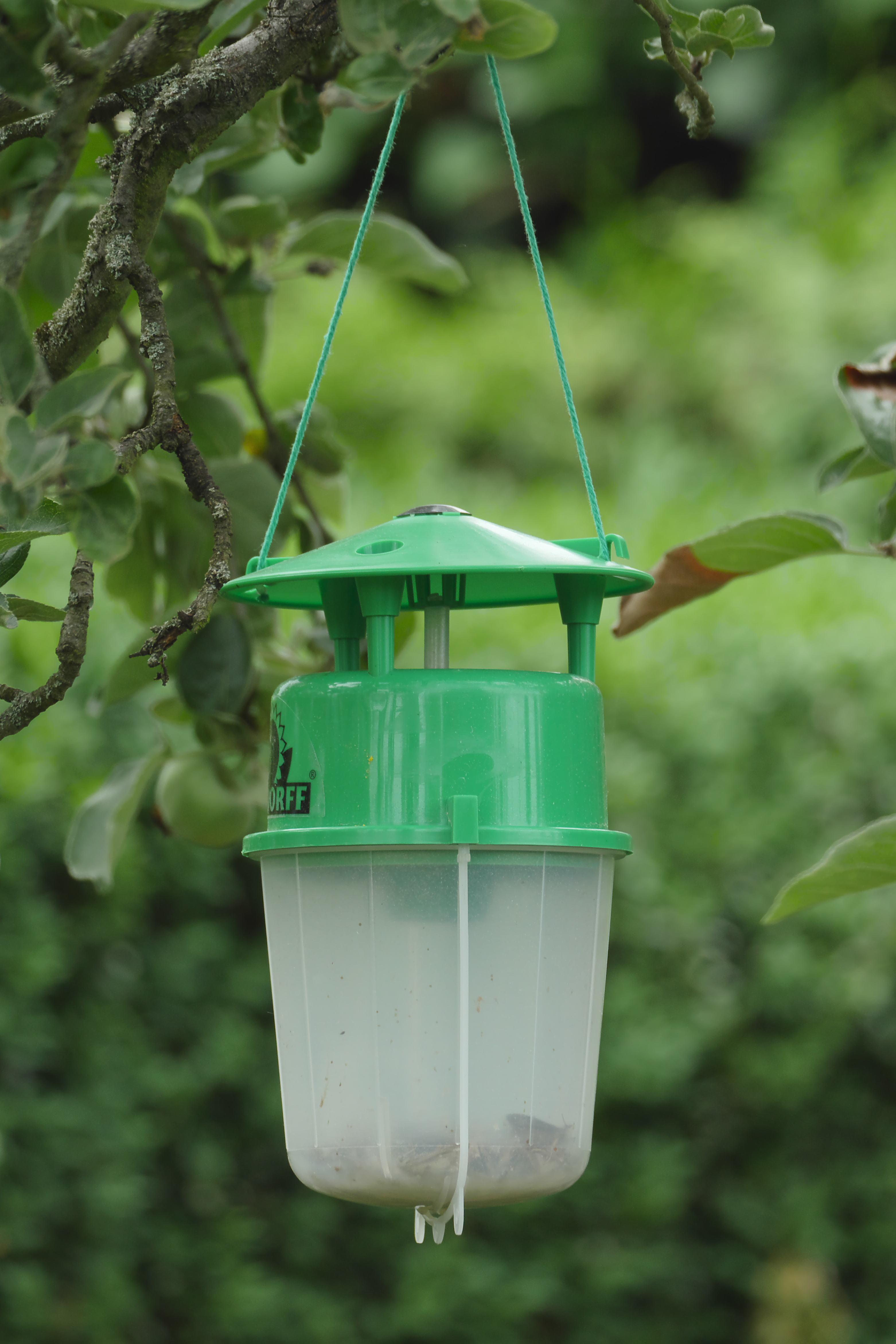 Pheromon trap for Cydalima perspectalis.